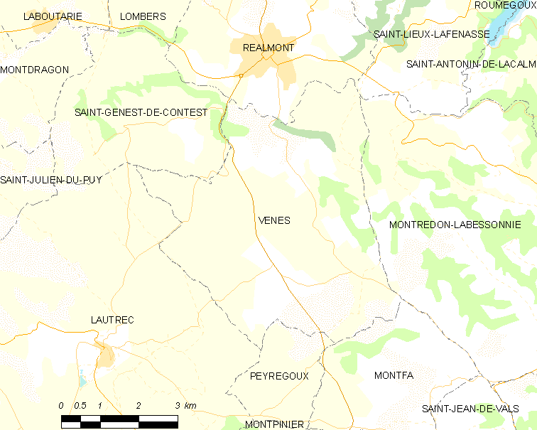 Map of French municipality Vénès